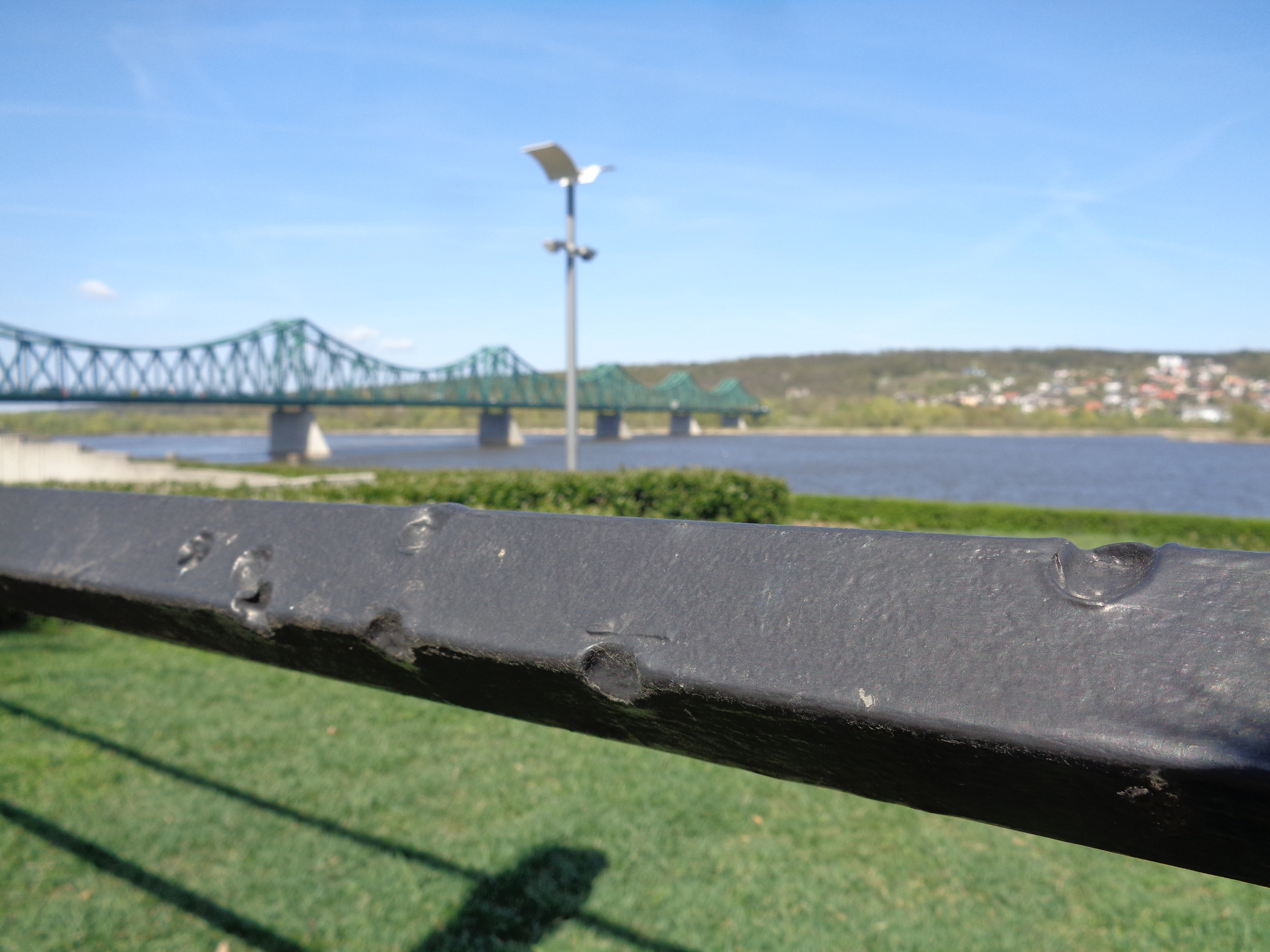 Six signs of bullets on fence of włocławek's boulevards, made during the battle of polish-soviet war in 1920 year. Fence was made by "Wisła" factory in Włocławek. On the background there is a Edward Rydz-Śmigły bridge.